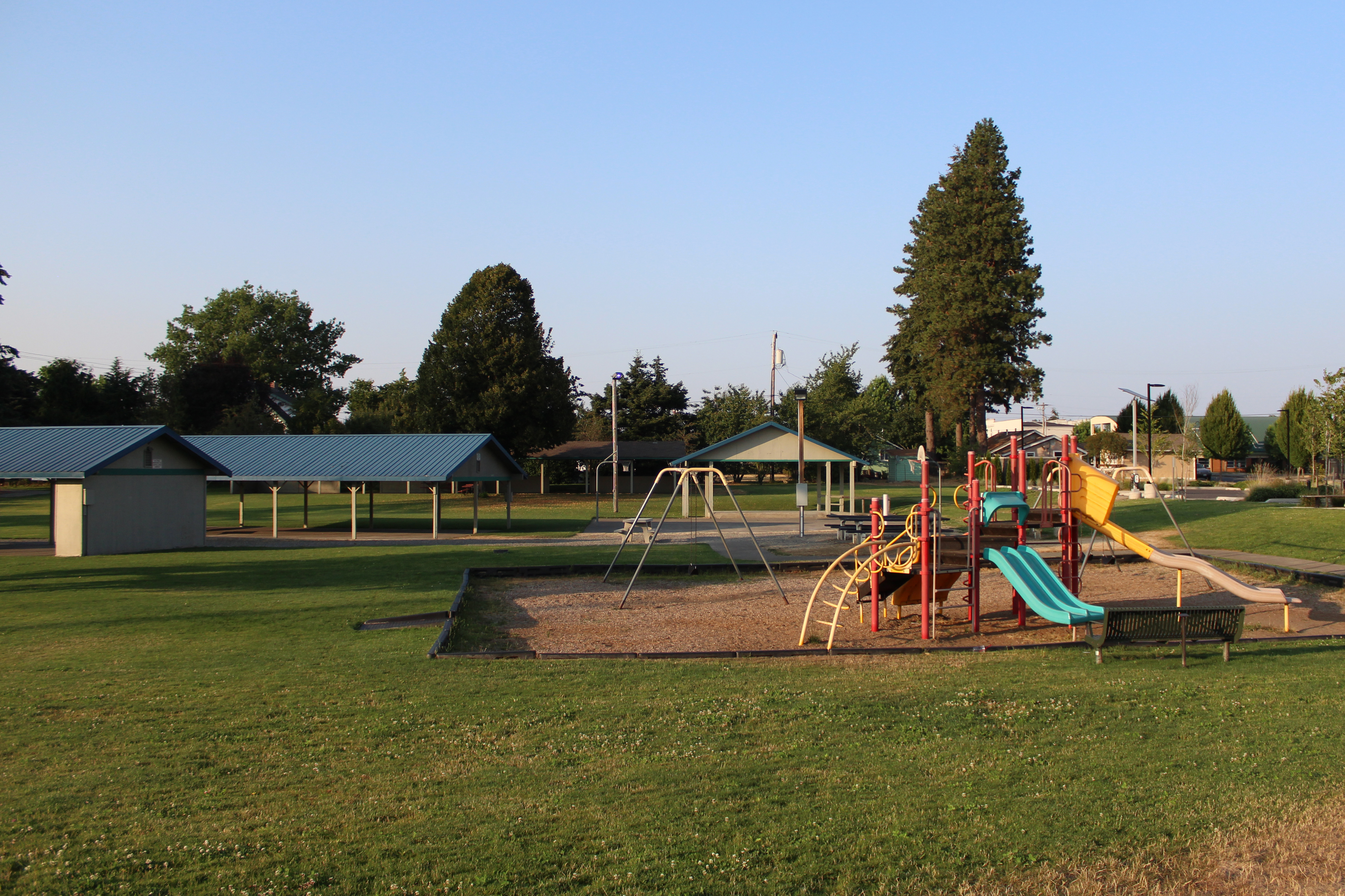 Yelm City Park is in Yelm, Washington, next to the community center, and across the street from the skate park.